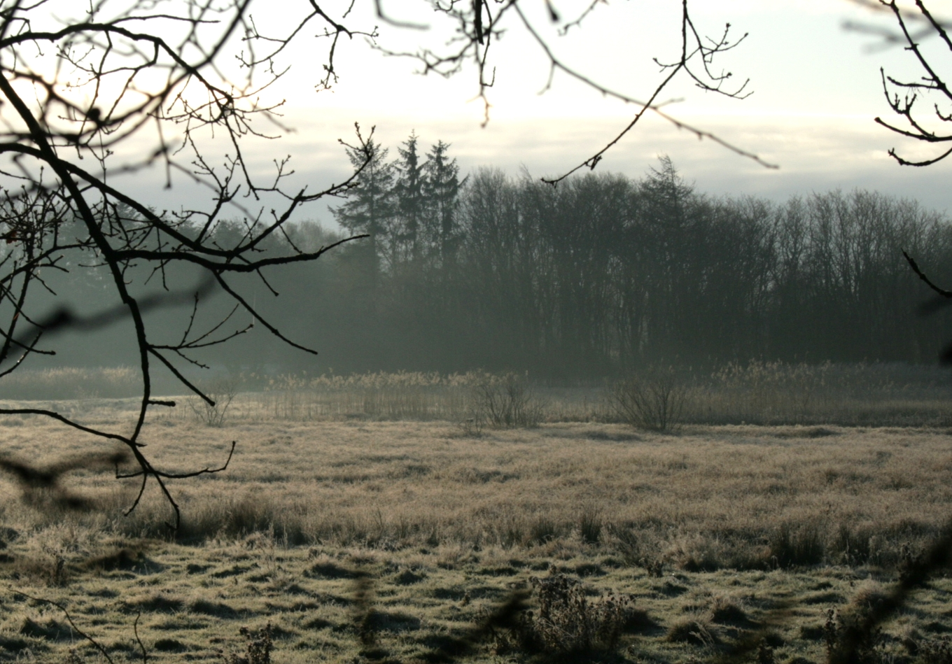 A meadow northeast of Malling, Denmark, showing a pasture at the front, a fallowed part in the middle, and a small forest in the background.